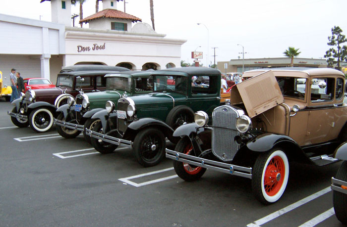 Ford Model A lineup including several different models. Photo by Morven at the weekly Donut Derelicts car show in Huntington Beach, California on Saturday July 24, 2004.